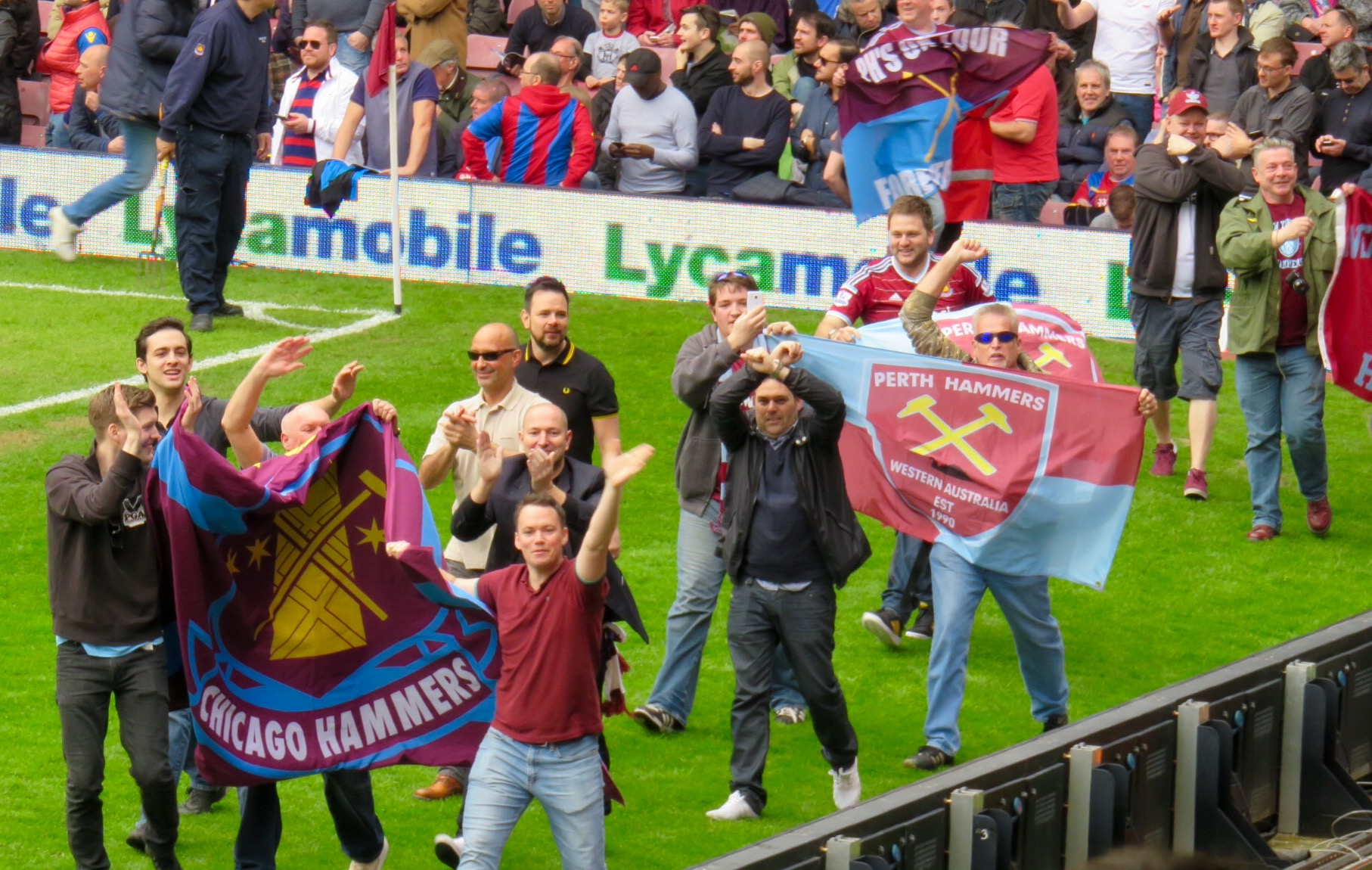 International supporters of West Ham United parade around the Boleyn Ground during the half time interval in the Premier League game against Crystal Palace.